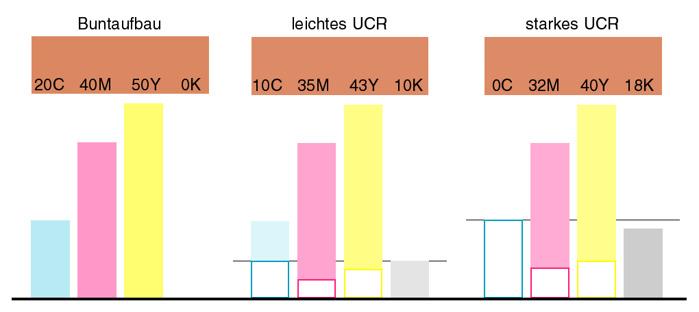 UCR 20%Cyan 40%Magenta 50%Yellow